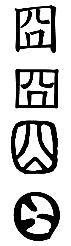 Jiong (囧) in Regular script, Clerical script, Seal script and Oracle bone script (top to bottom)